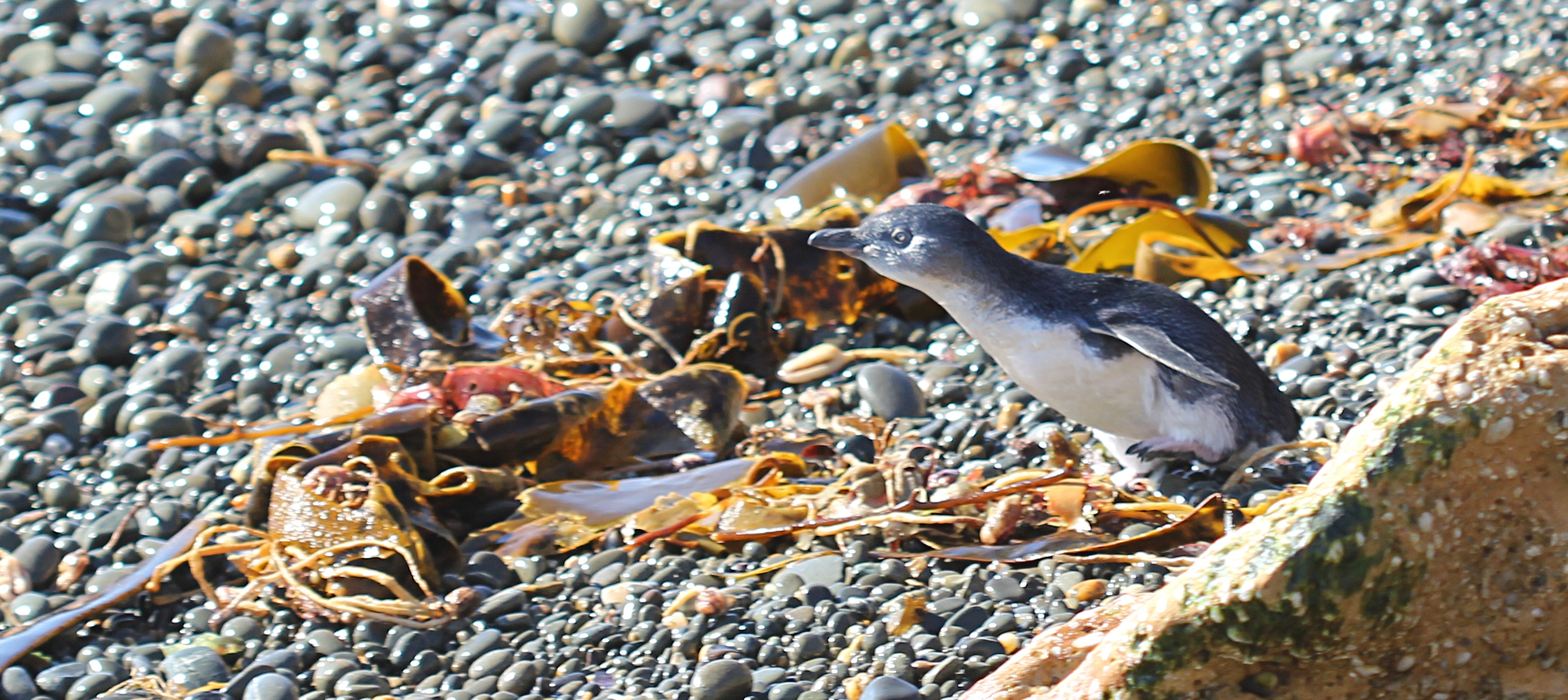 A Little Blue Penguin (Eudyptula minor) heading for the sea after being released on a beach near Oamaru, New Zealand.